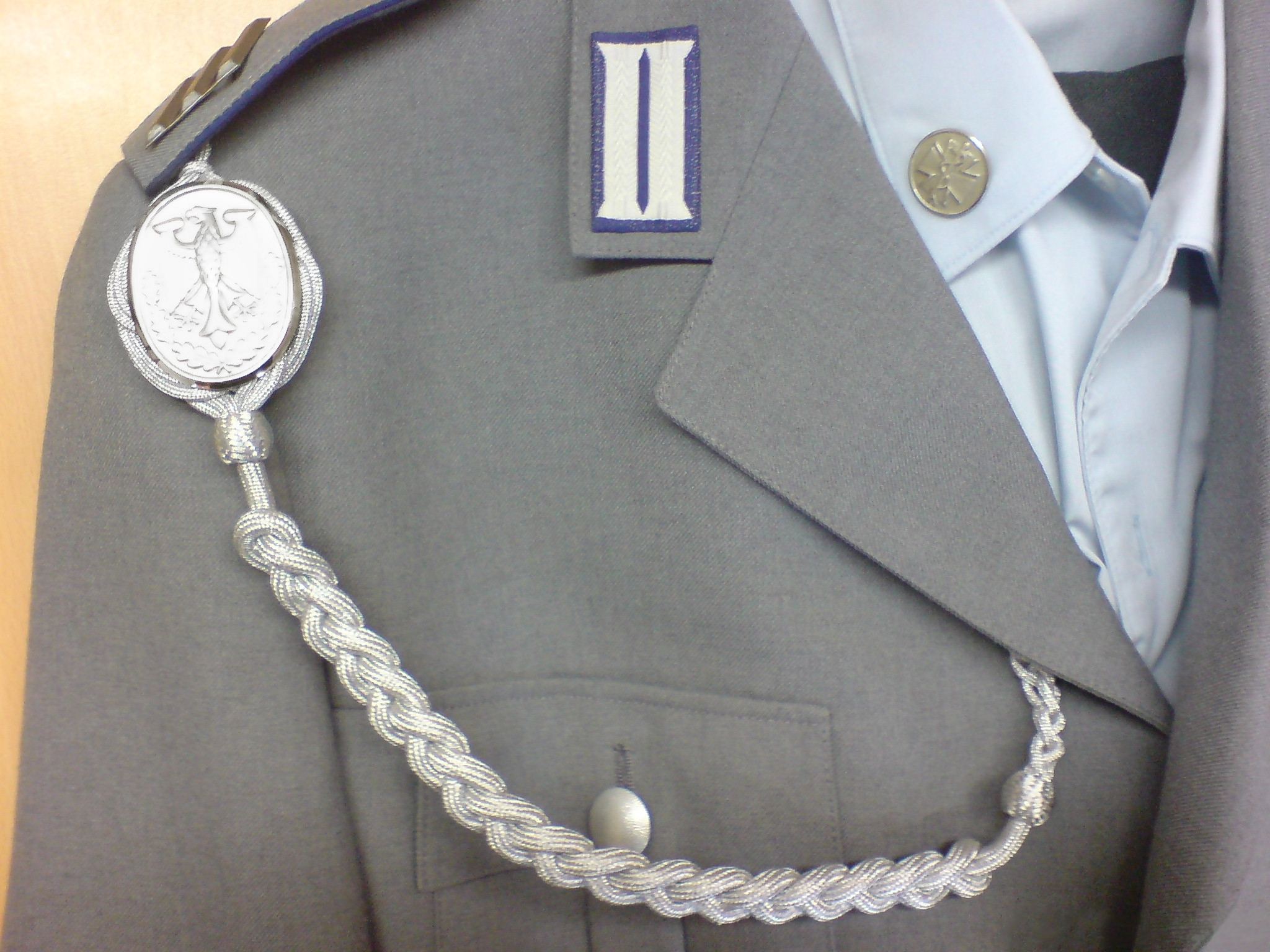 German Armed Forces Badge of Marksmanship in silver